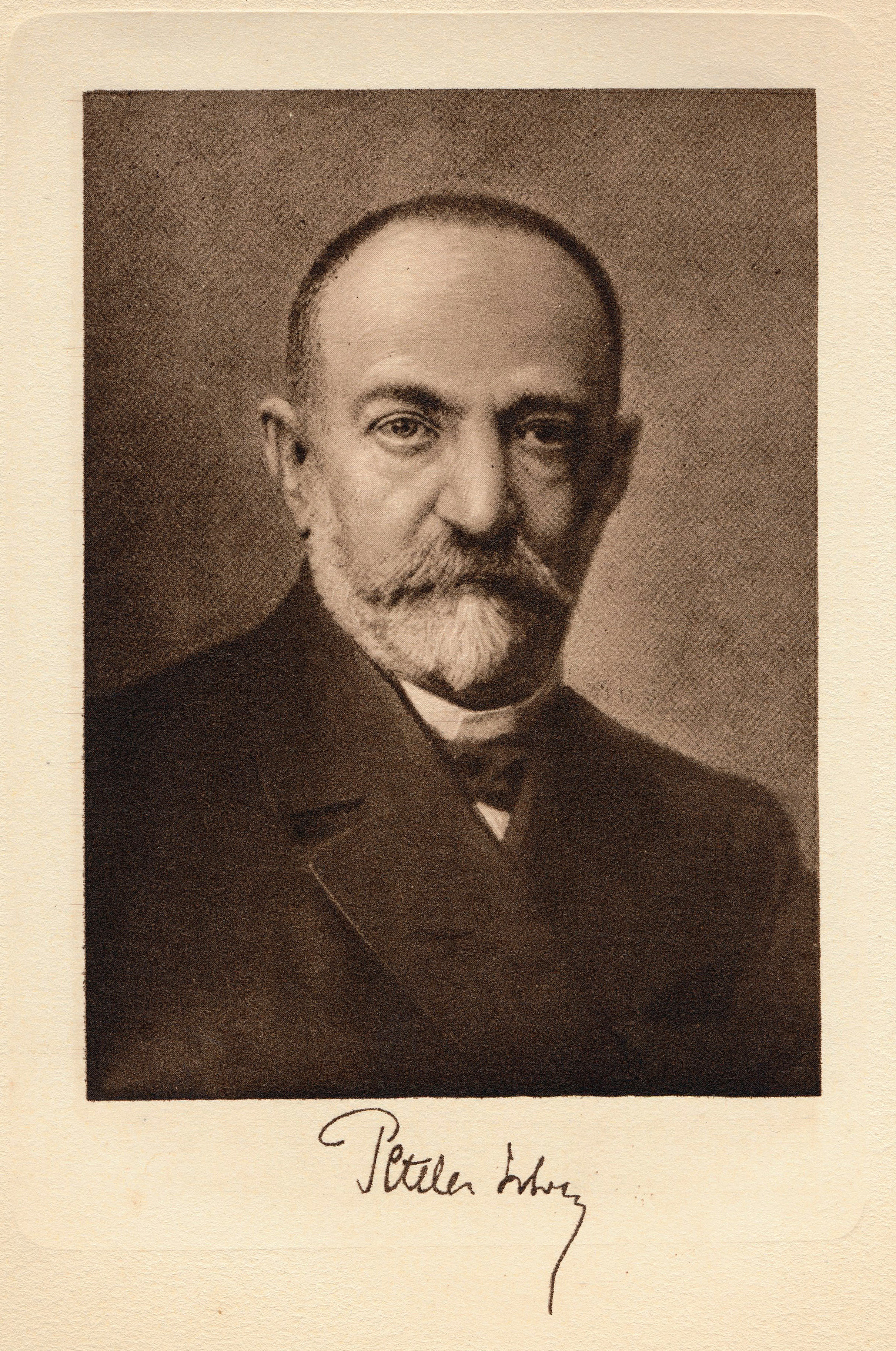 István Petelei (1852-1910) Hungarian writer